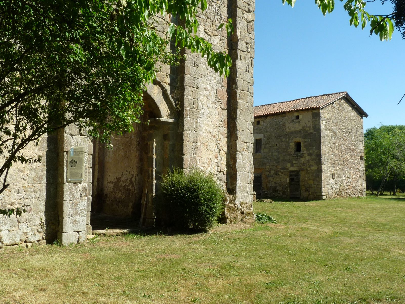 Priory